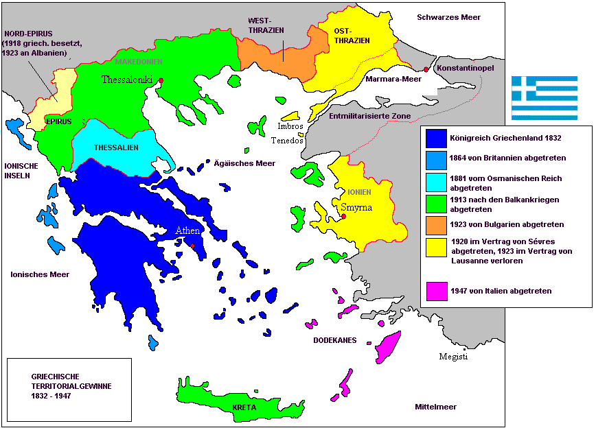 German Adaption of Image:Greekhistory.GIF